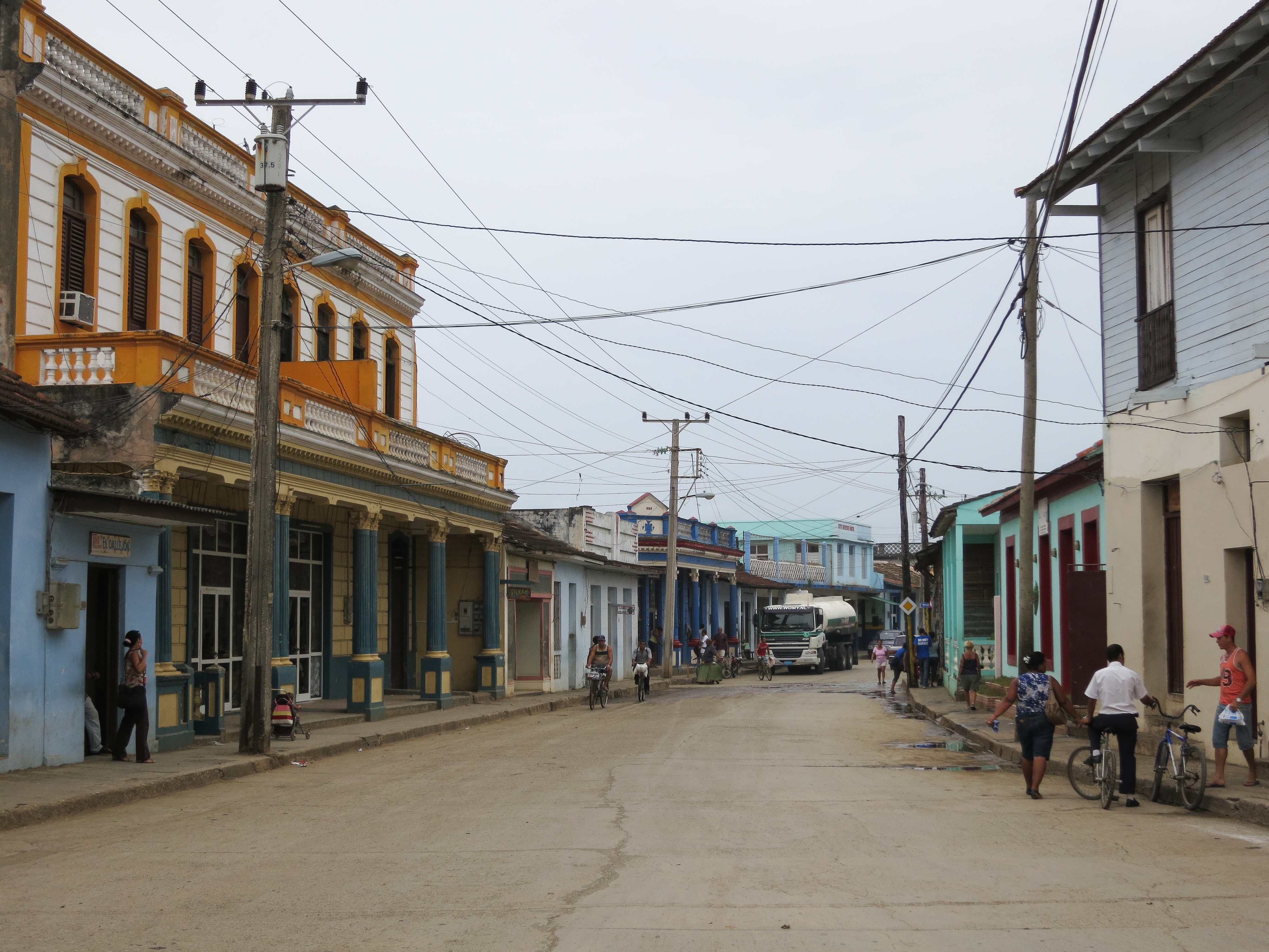 The city life of Baracoa